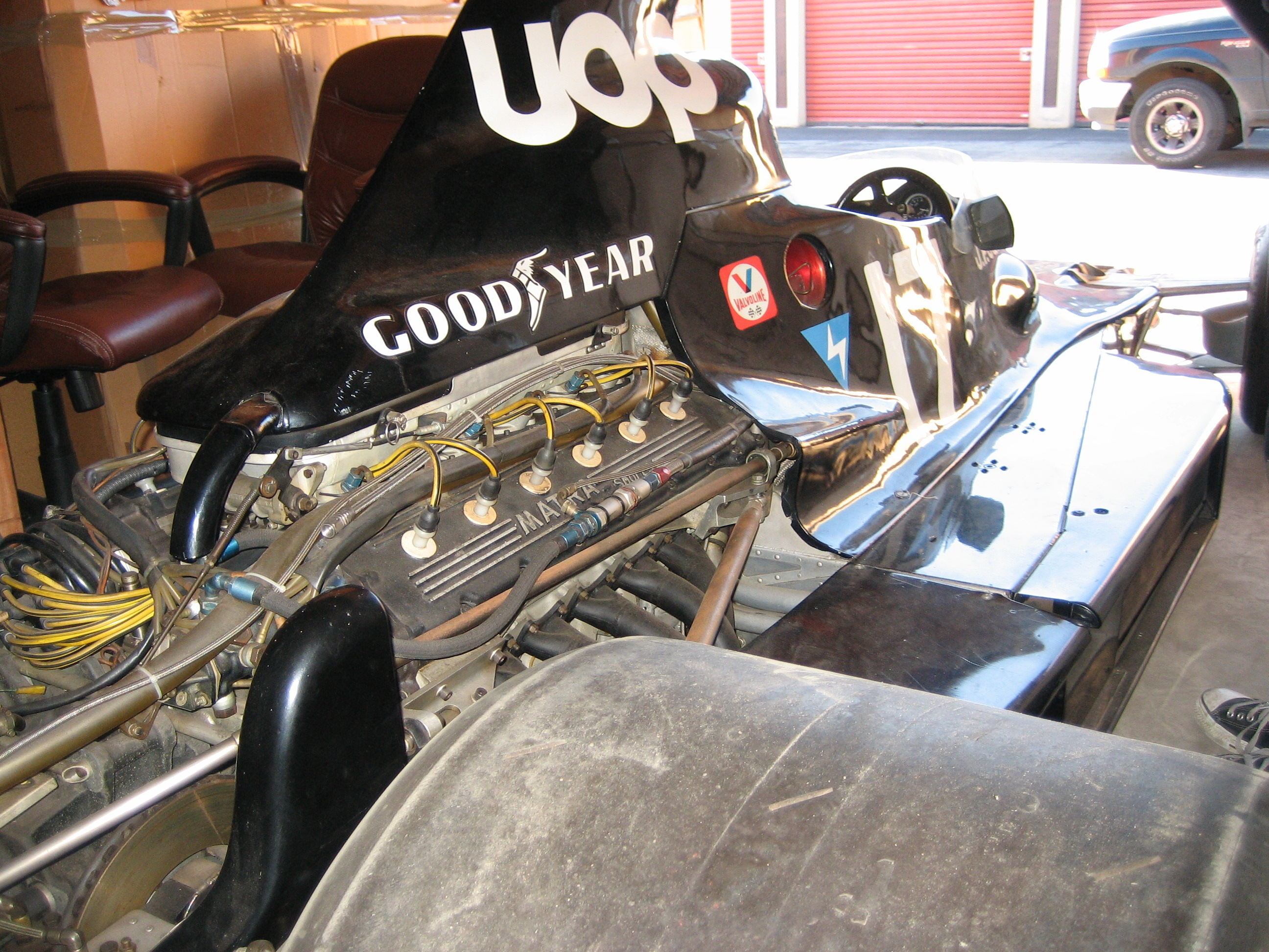 Rare view of the only Matra-powered Shadow DN7 in the world.